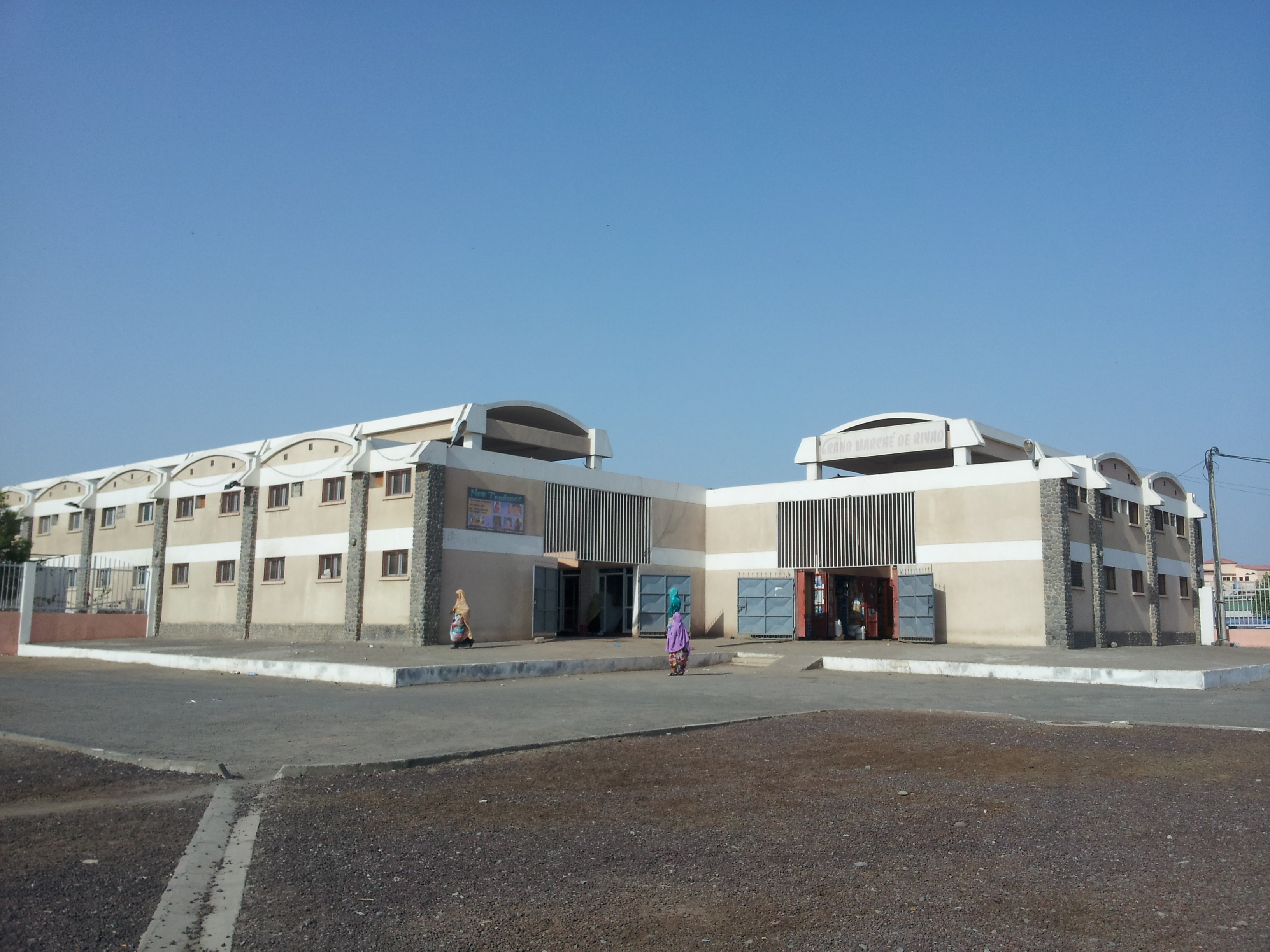 The Ryad Market (Marché de Ryad) in Djibouti City, Djibouti.